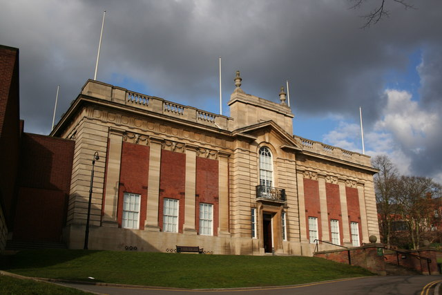 Usher Art Gallery. Designed by Sir Reginald Blomfield and opened in 1927. James Ward Usher was born in 1845, the eldest son of Lincoln jeweller & watchmaker James Usher. He inherited the family buiness and made his fortune largely from making and selling novelty silver Lincoln Imps ! - his art collection formed the nucleus of the collection